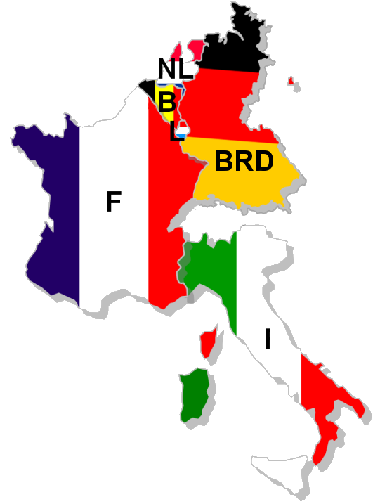 The "Europe of the Six": Belgium, Luxembourg, the Netherlands, France, West Germany and Italy were the founding members of the European Coal and Steel Community (1951), the European Economic Community and the European Atomic Energy Community (both 1957).